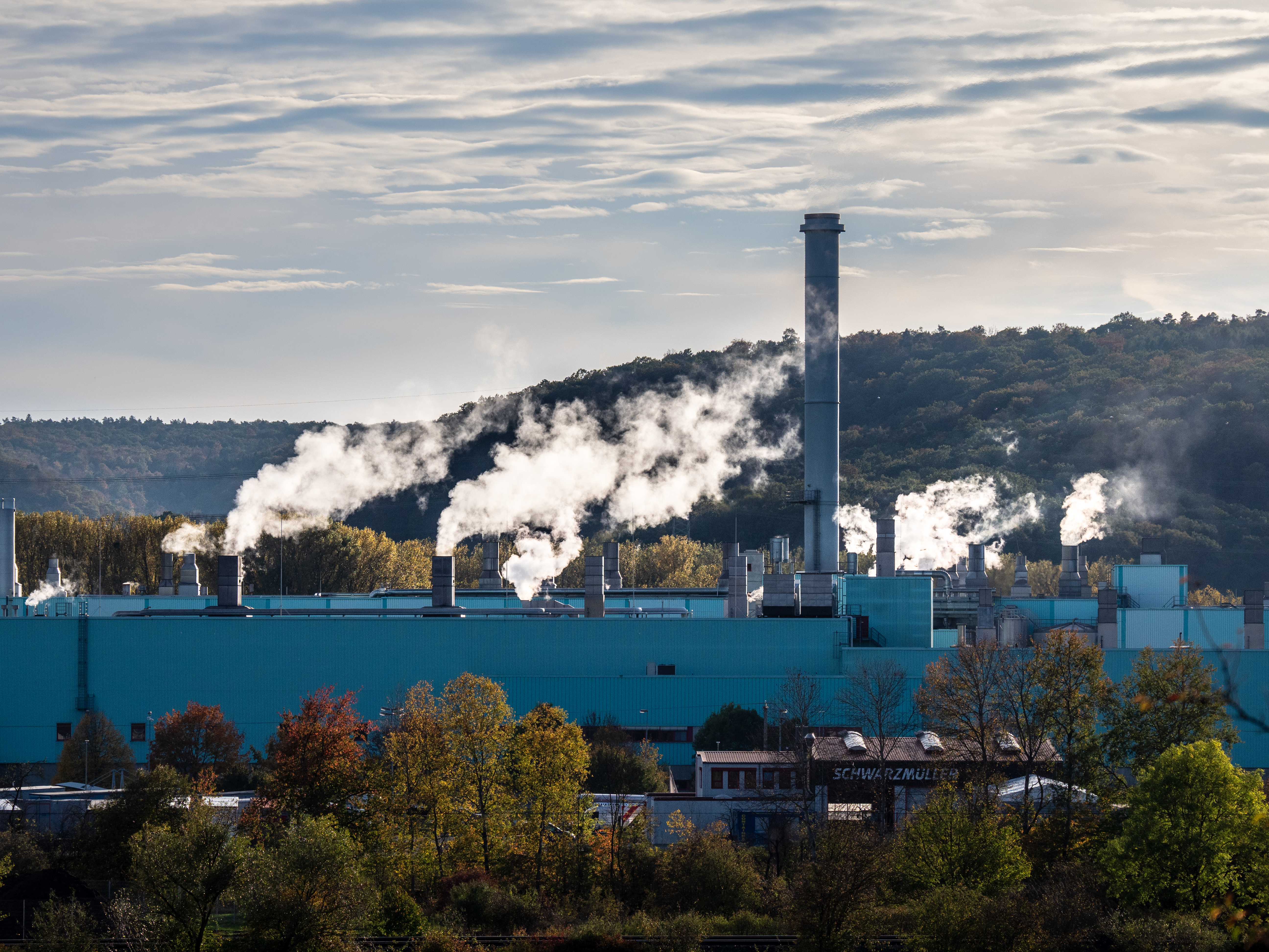 Palm paper mill in Eltmann in the district of Haßberge